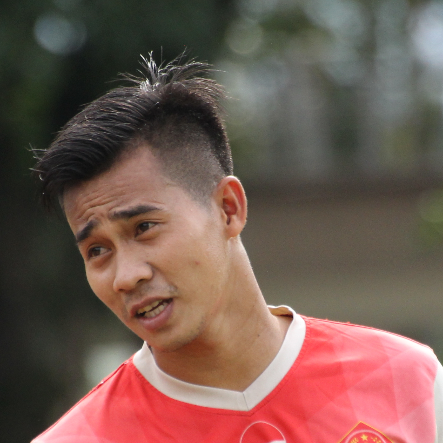 PS Tira player, Angga Saputra